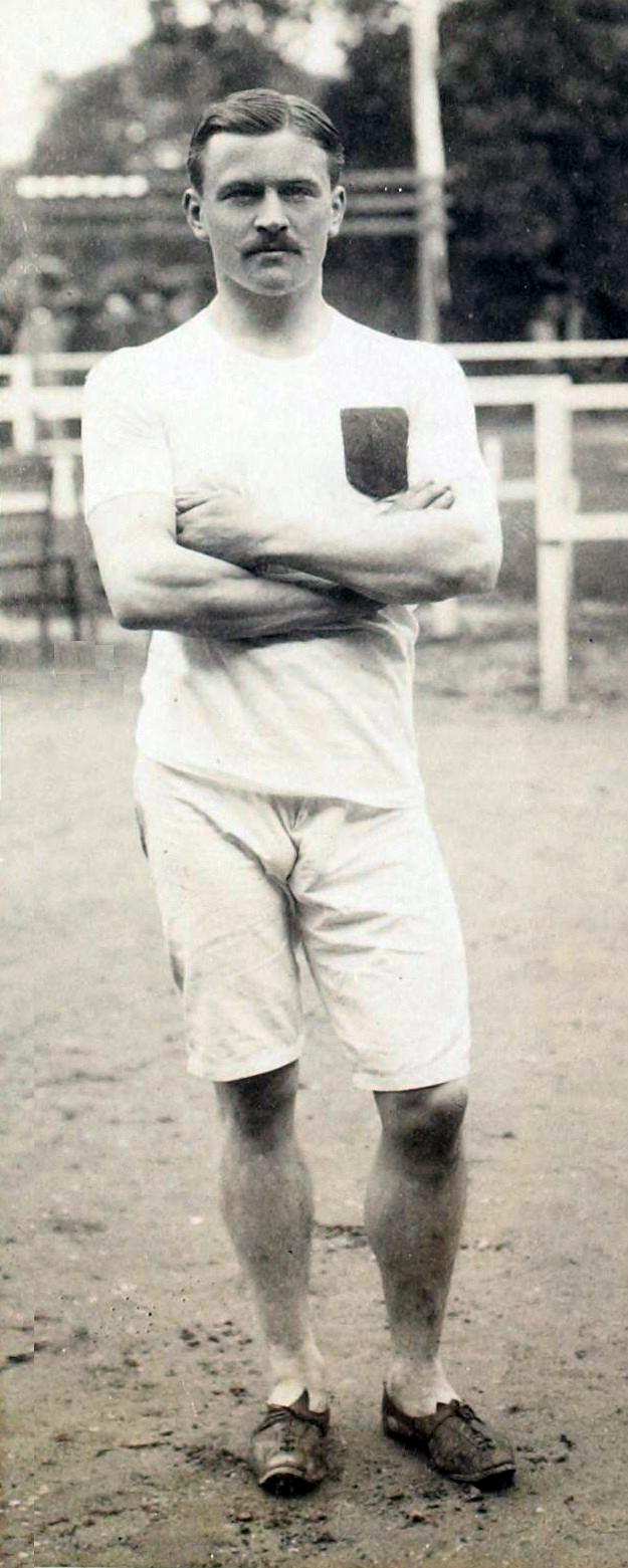 [Collection Jules Beau. Photographie sportive] : T. 7. Année 1898 / Jules Beau : F. 20v. Racing-club de France, 19 juin 1898 ; G. Wood ; Bouvalot ; Championnats nationaux, 26 juin 1898 ; Jugelet ; Tauzin ; Max Kurtz, Charles Robert ; Gontier. Max Kurtz, Allemand, né en 1873 à Stuttgart et décédé en novembre 1929 à Heldelberg à 56 ans, de 1m73 pour 83 kilos, champion de France du lancer du poids en 1898, puis champion de France de rugby à XV en 1905 avec le S.B.U.C., comme capitaine, poste de demi (et également vice-champion de France en 1901, comme arrière latéral cette fois). Licencié en athlétisme au Stade Bordeaux de 1897 à 1898, puis en rugby à XV au Stade bordelais ASPTT entre 1900 et 1905.